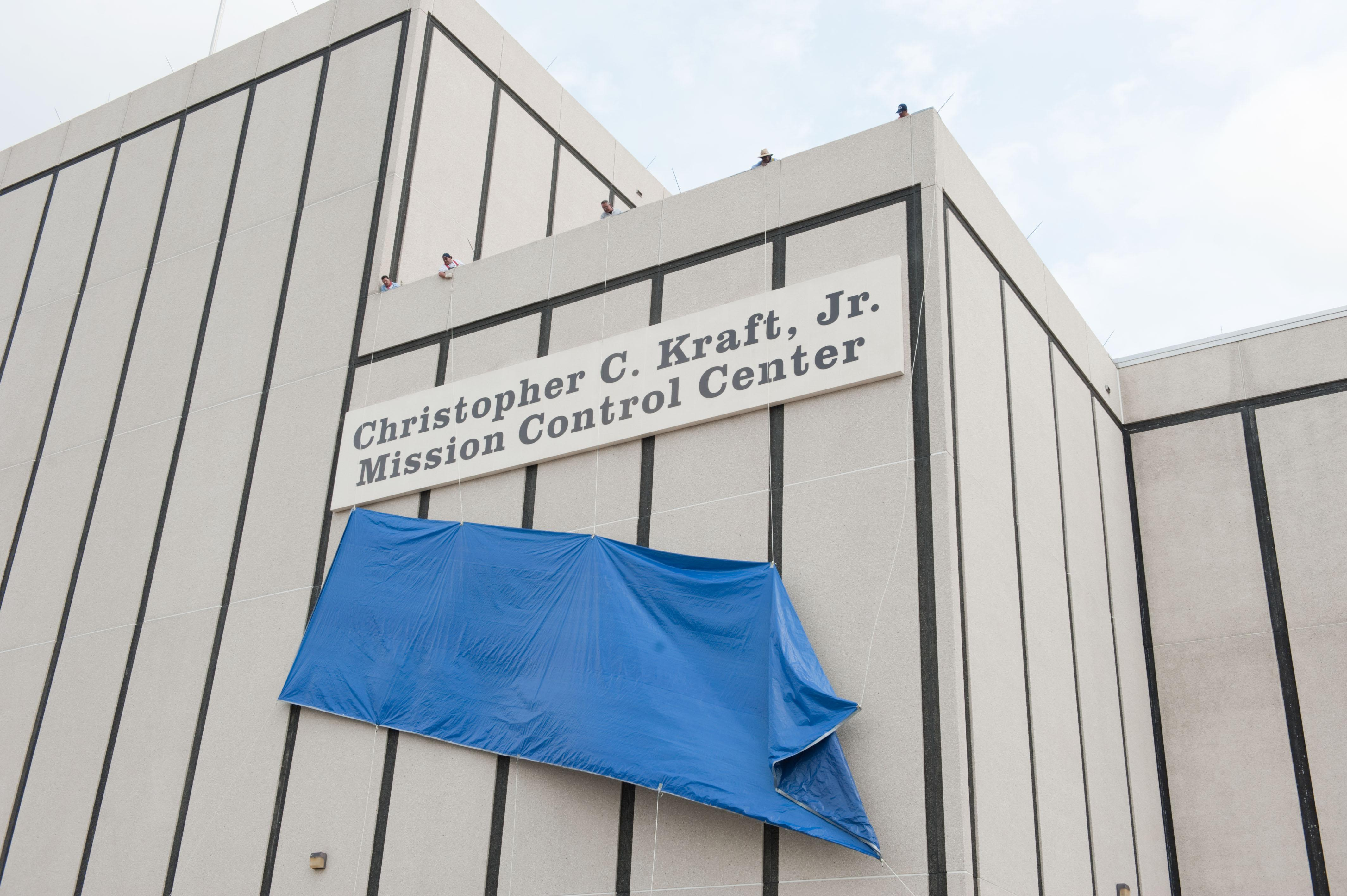 After more than 45 years of service to the nation's space program, the naming for NASA's mission control center became official with the unveiling of a new nameplate on the building, designating the legendary building as the Christopher C. Kraft, Jr., Mission Control Center. Dr. Kraft, America's first human space mission flight director, and his wife were joined by JSC Director Michael Coats and hundreds of other old and new admirers in the April 14 ceremony during which the historic mission control center was re-named in Dr. Kraft's honor for his service to the nation and its space programs.